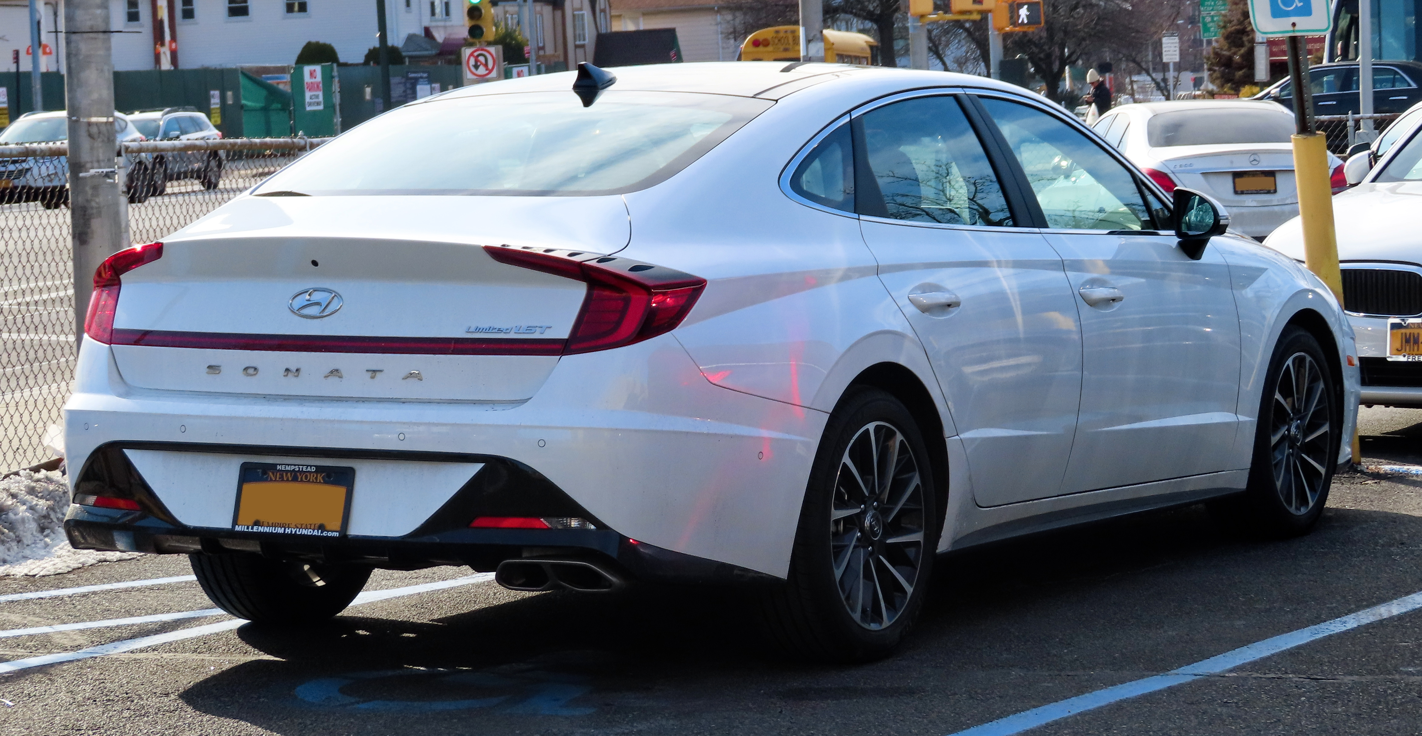 A 2020 Hyundai Sonata Limited photographed in Kew Gardens Hills, Queens, New York, USA